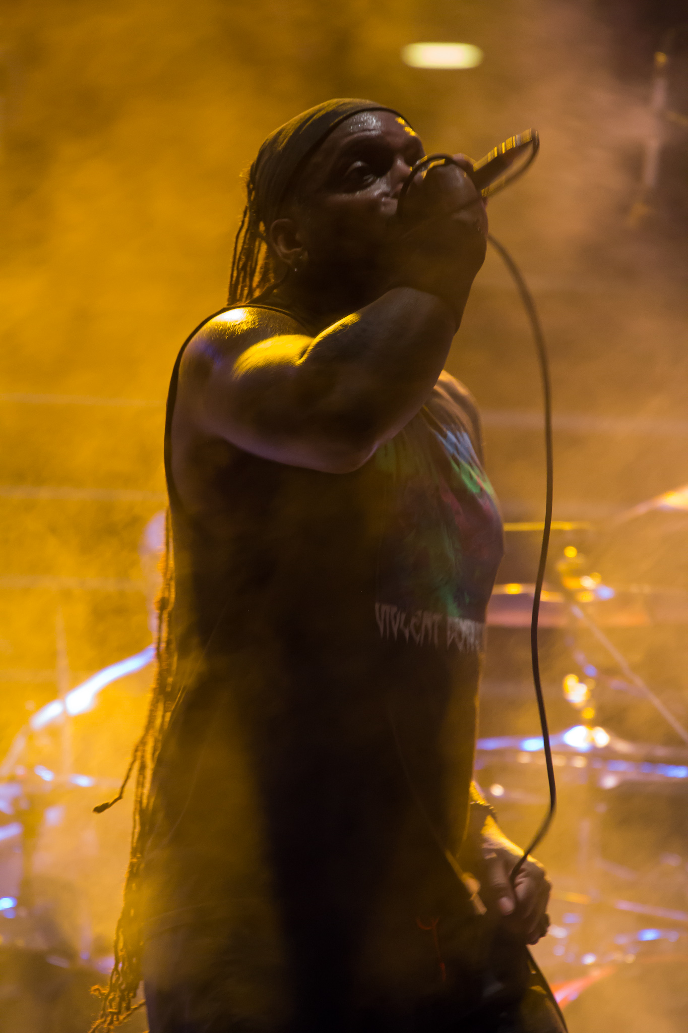 Sepultura at the "Barge to Hell" Heavy Metal Cruise